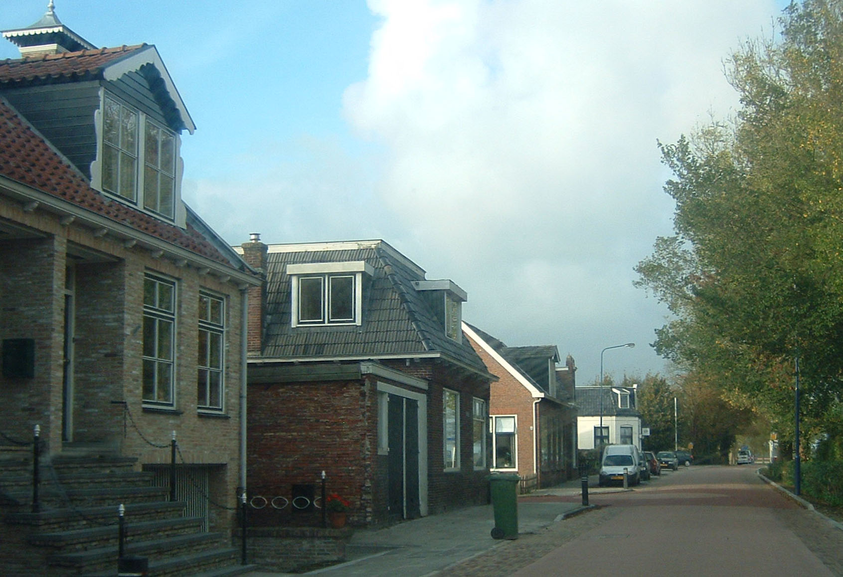 Own photograph of the small village of Weidum in Friesland (The Netherlands)